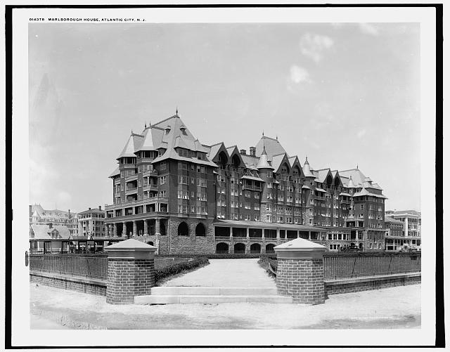 Marlborough House Hotel, Ohio Avenue, Atlantic City, New Jersey; William Lightfoot Price, architect (1902).